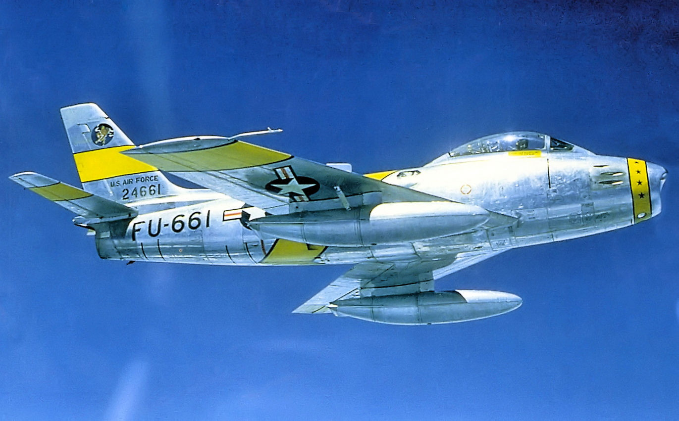 81st Fighter-Bomber Squadron - North American F-86F-30-NA Sabre - 52-4661